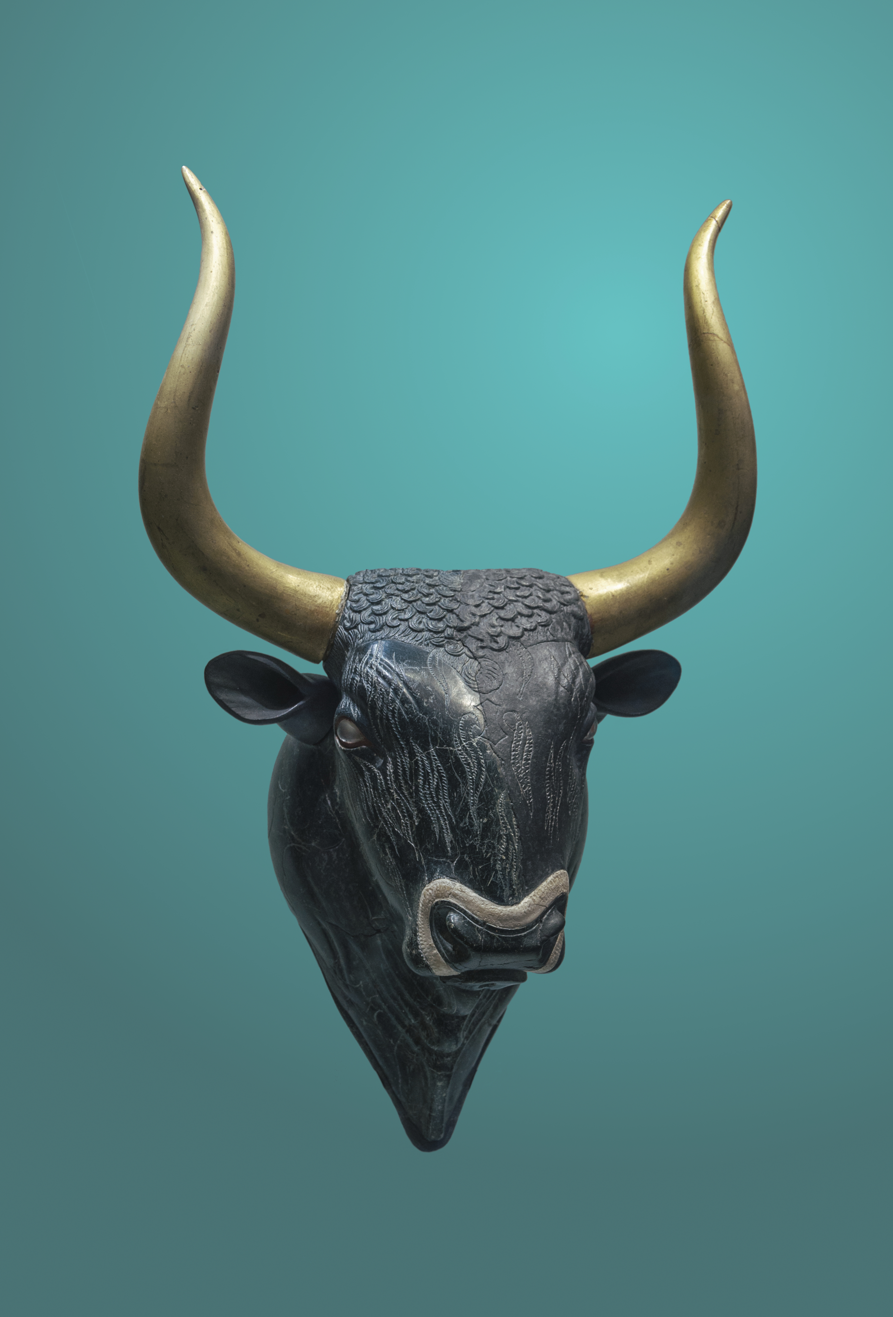 The stone bull's head rhyton. Left side of head and horns are restored. Masterpiece of minoan art, worked with a great precision to render the natural features of the real animal. The snout is outlined with an inlay of white seashell, and the right eye is inlaid with rock crystal, with rim and iris of red jasper. Should have been used for libations. Found at Knossos, Crete, Greece (little palace), Late Bronze Age, 1550 - 1500 BCE.)